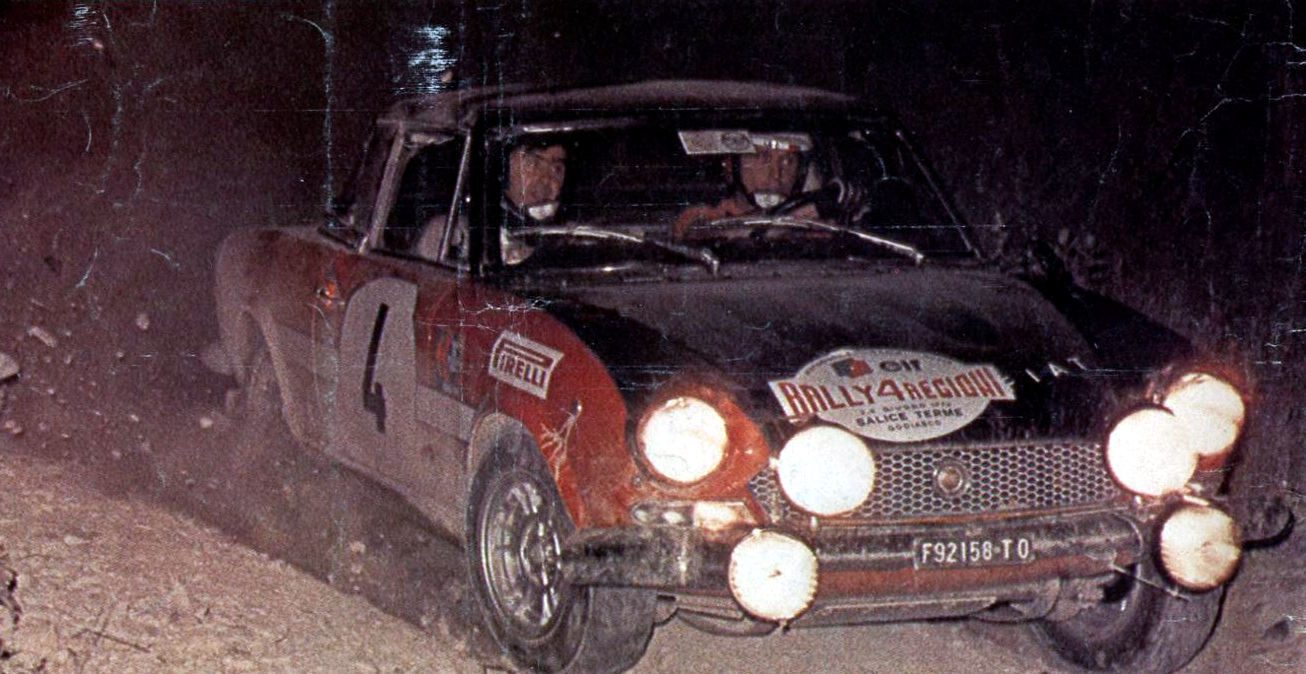 Northwest Italy, June 4, 1972. Italian rally driver Alcide Paganelli and his co-driver Domenico "Ninni" Russo on a Fiat 124 Spider at the 1972 Rallye 4 Regions.